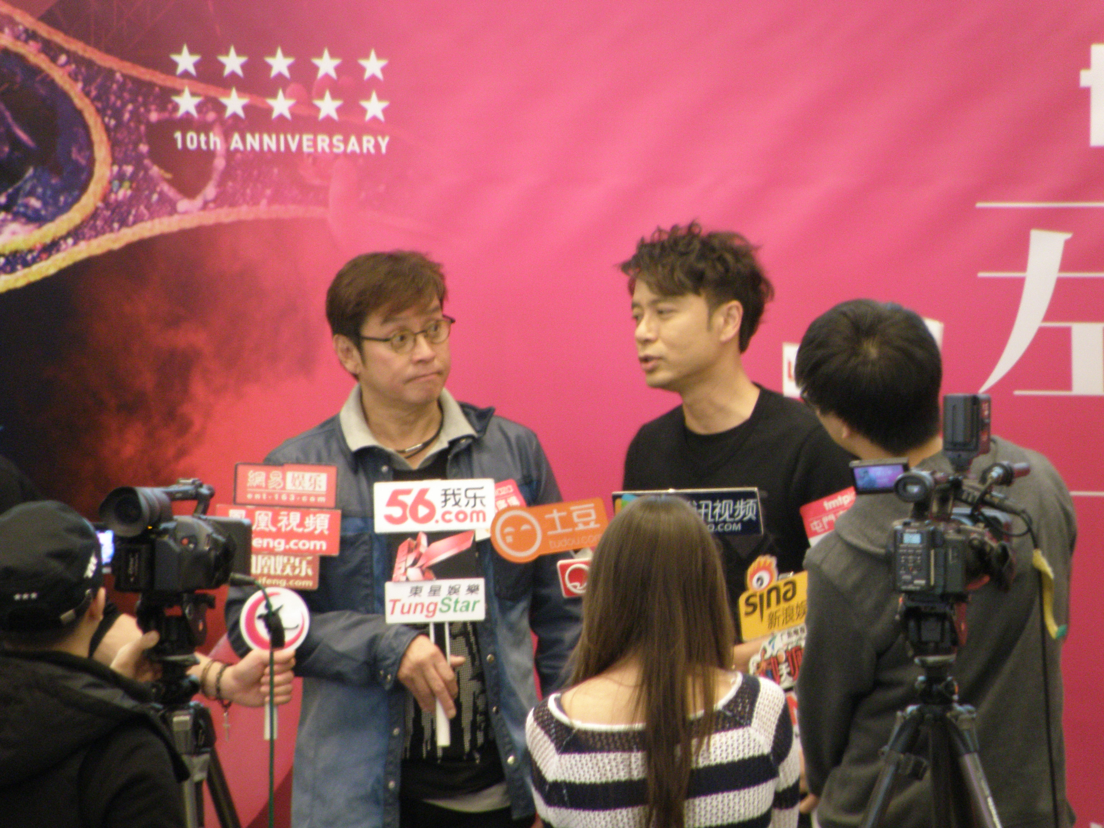 Alan Tam (left) and Hacken Lee (right) dvd signature activity at Tuen Mun Town Plaza 2014, they were interviewing by media before the signature begin.